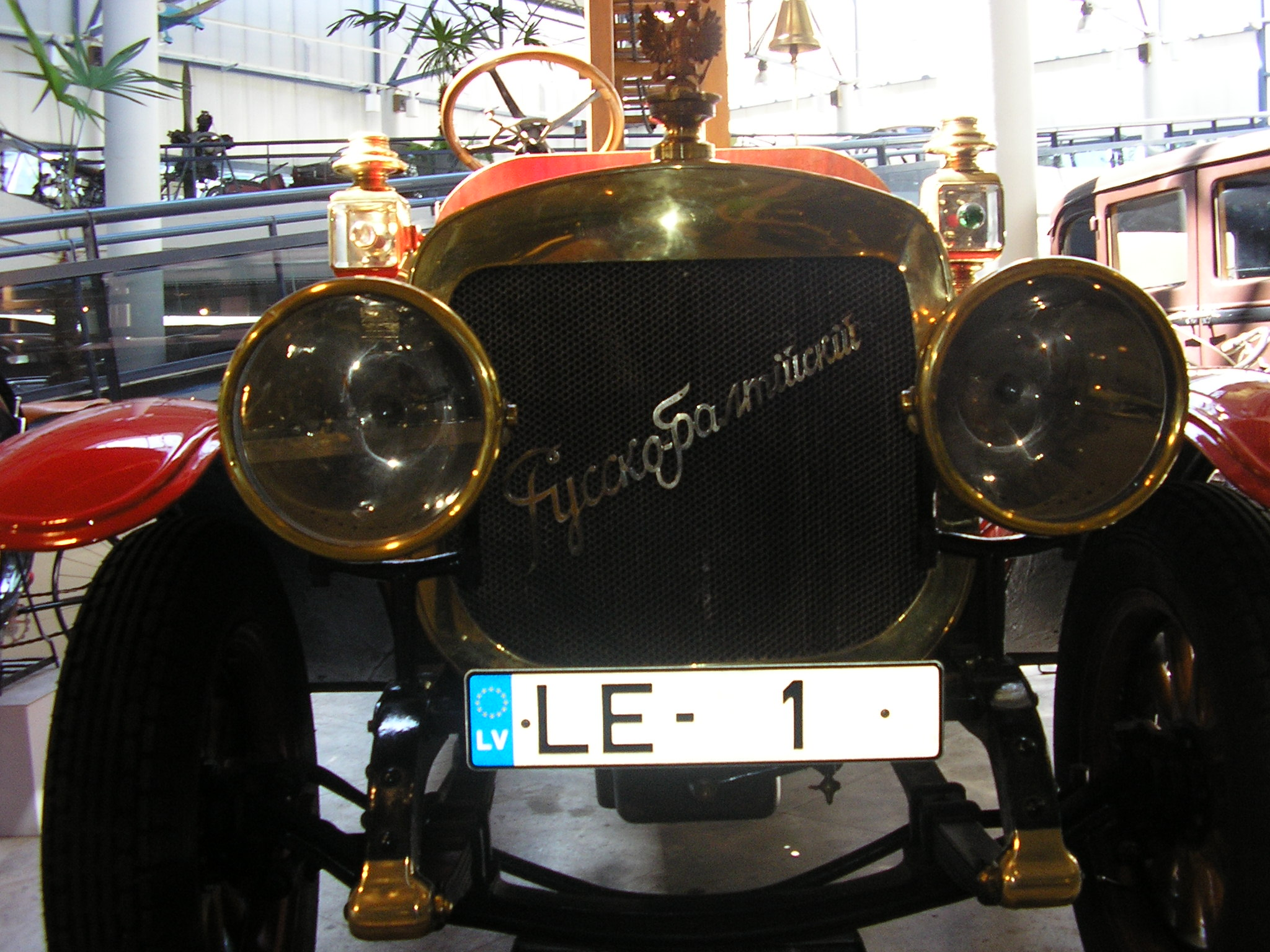 A 1912 Russo-Balt mod. "D" 24/40. This is actually the only fire engine made by the Russo-Balt factory. It is based on the 1 ton truck chassis and was ordered by Riga Peter's Fire Fighters Association. It was found as scrap metal and was dissassembled in the home of former fire fighter J. Mezhpapans in Rauna in 1976. In 1978 it was renovated by AAK and the fire department of Latvia SSR. It is powered by a 4501 cc, four cylinder, 40 hp side valve engine goving a top speed of 40 km/h.